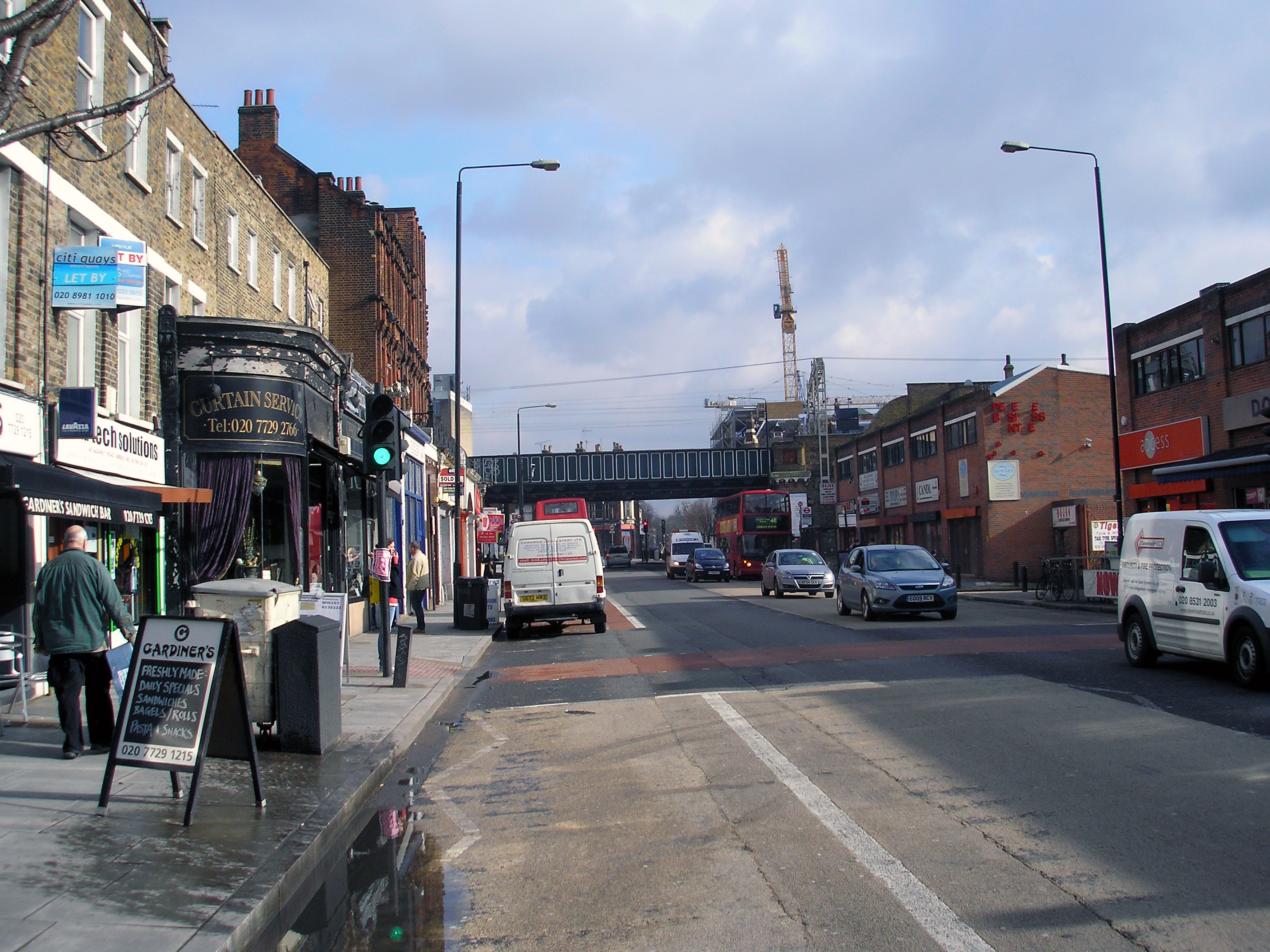 Eastern end of Hackney Road Looking east. Hackney Road, and the A1208, end at traffic lights immediately beyond the railway bridge, where the road meets Cambridge Heath Road.